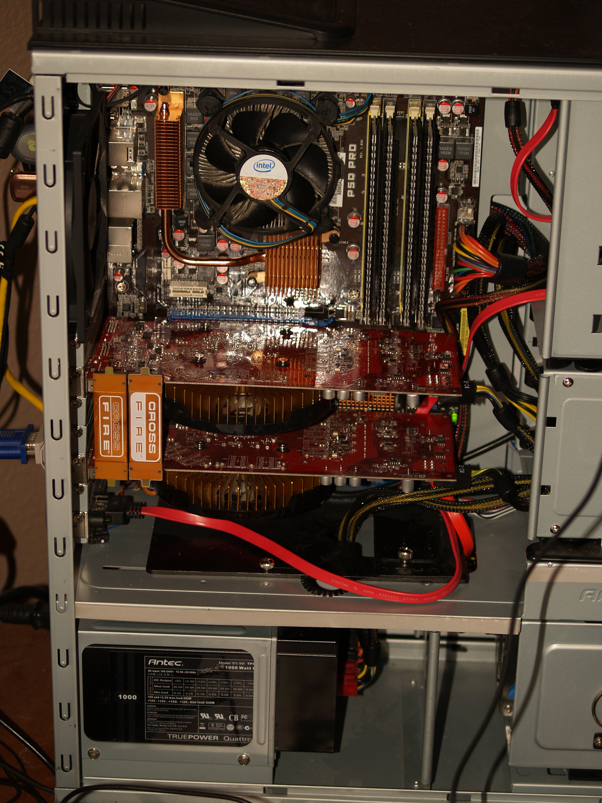 A computersystem with a 3,16GHz Intel Core 2, 6GB RAM and two Radeon HD 4850 video cards (see Radeon R700) in CrossFire configuration